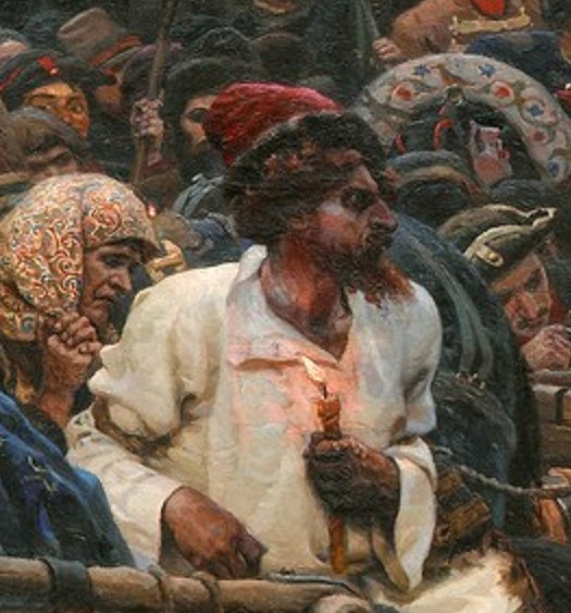 Detail of the painting "Morning of streltsy's beheading" by Vasily Surikov (1881)